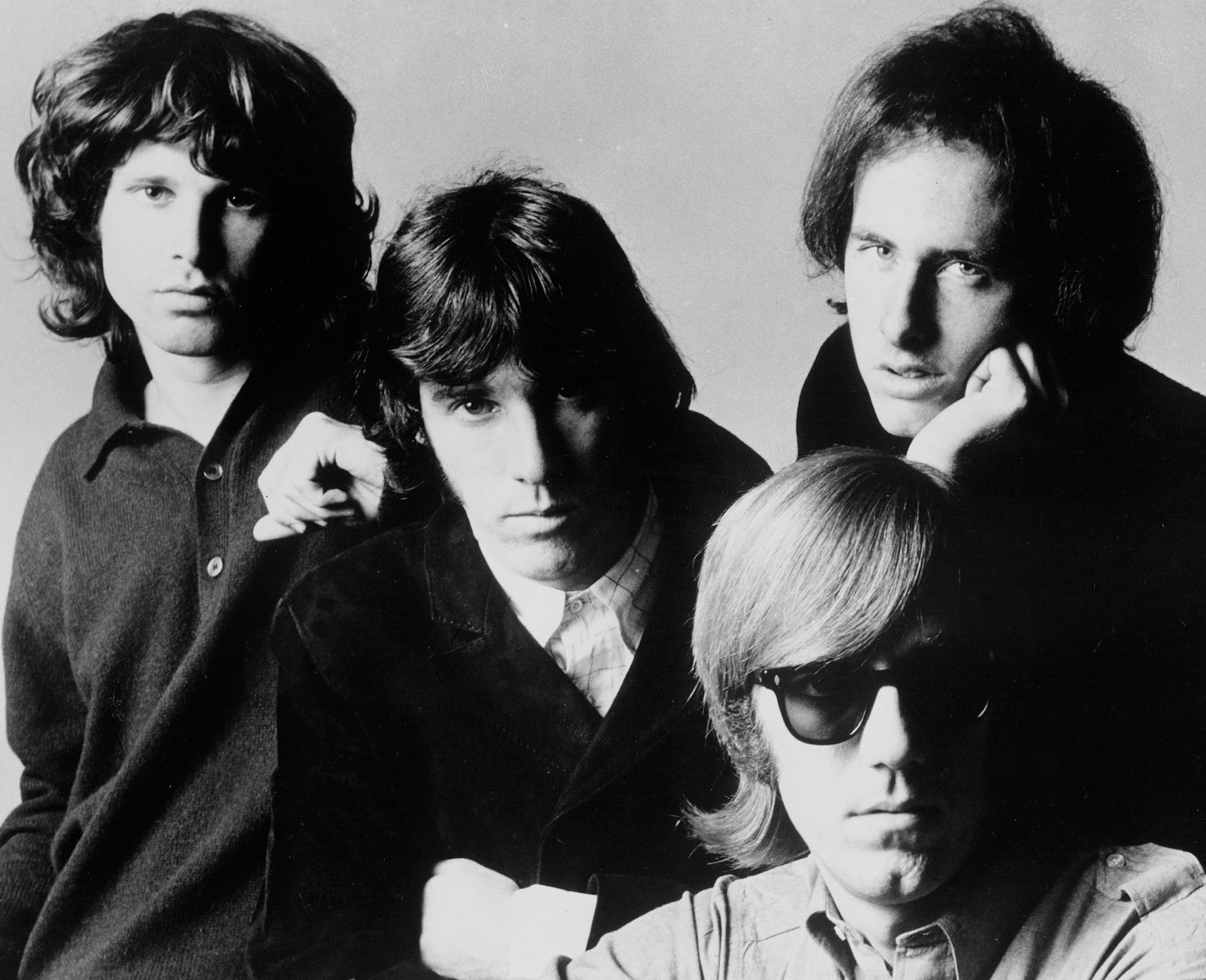 Photo of the rock group The Doors. From left-Jim Morrison, John Densmore, Robby Krieger and seated, Ray Manzarek.